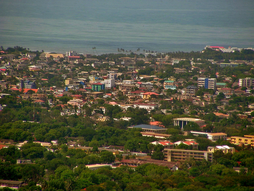 This is a glimpse of Osu from the air, which is a retail, hotel, restaurant and night life area. The liveliest part of town.